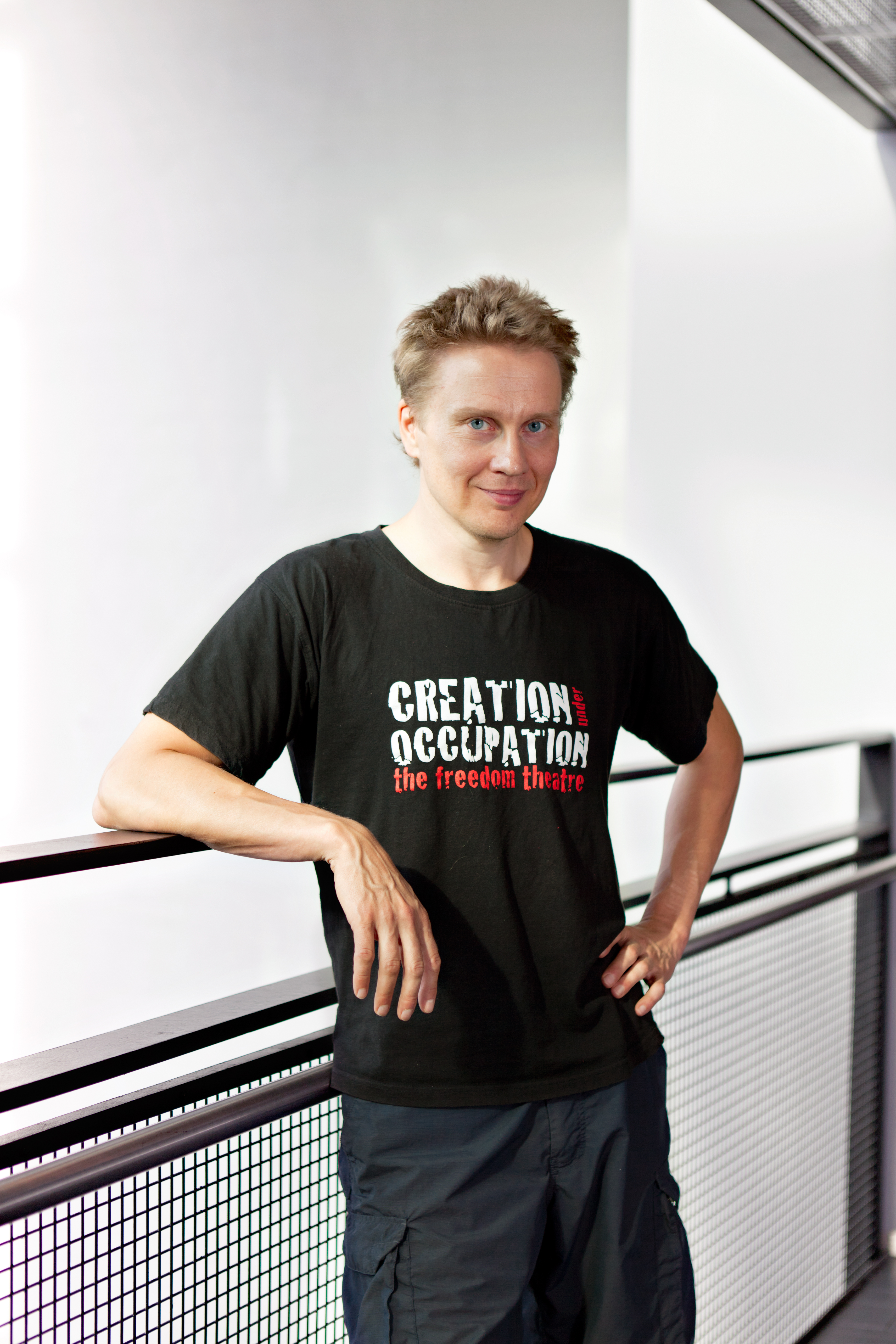 Press material published by Aalto University describing its professors. For public use.